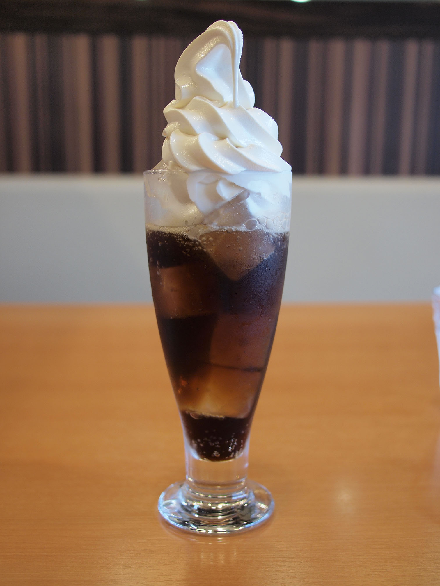 Cola float